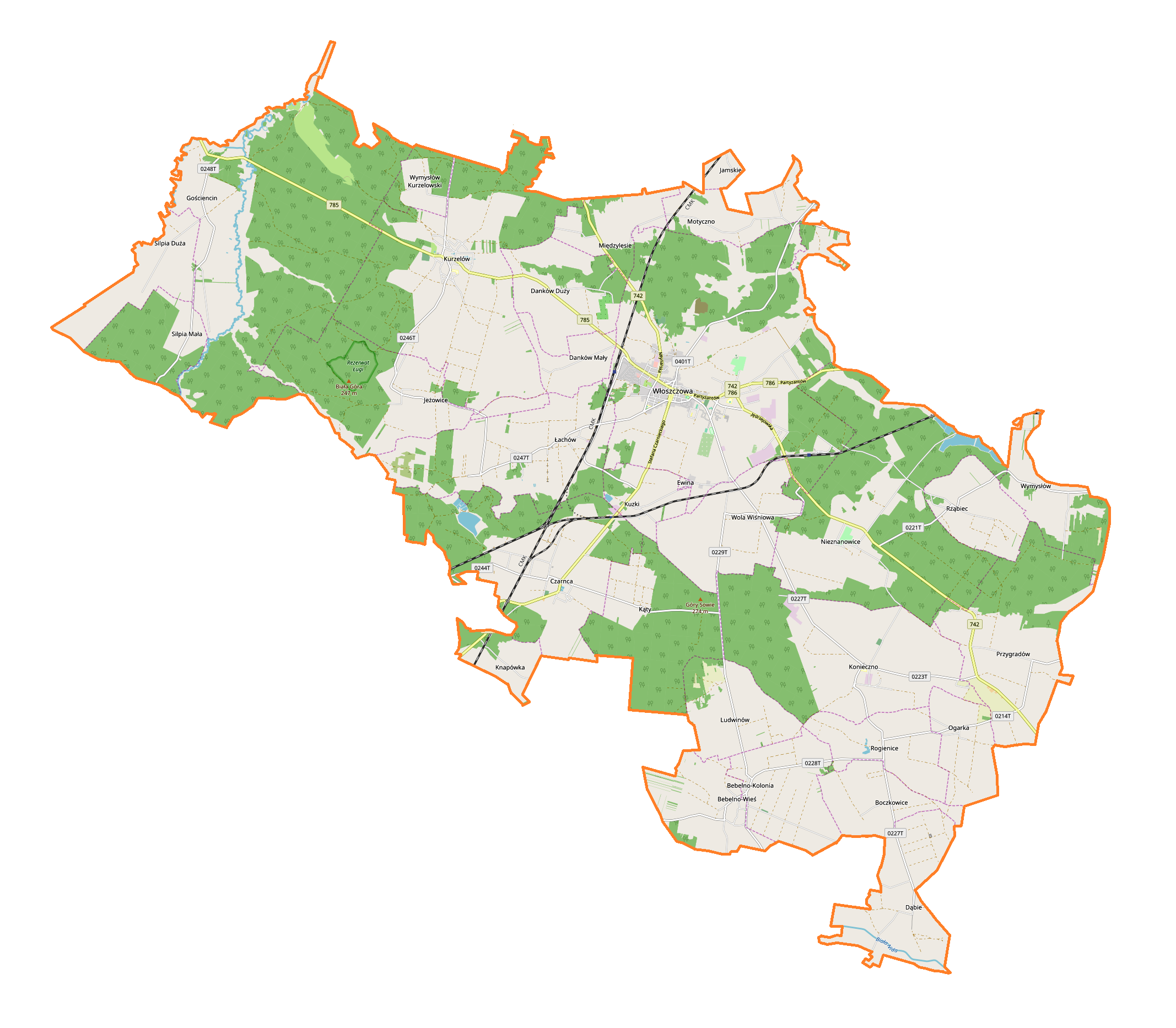 Location map